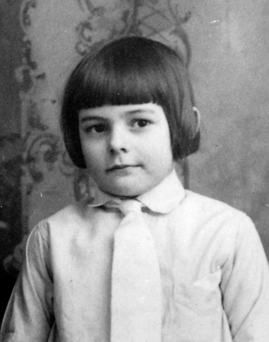 Ernest Hemingway, seven years old, 1905.